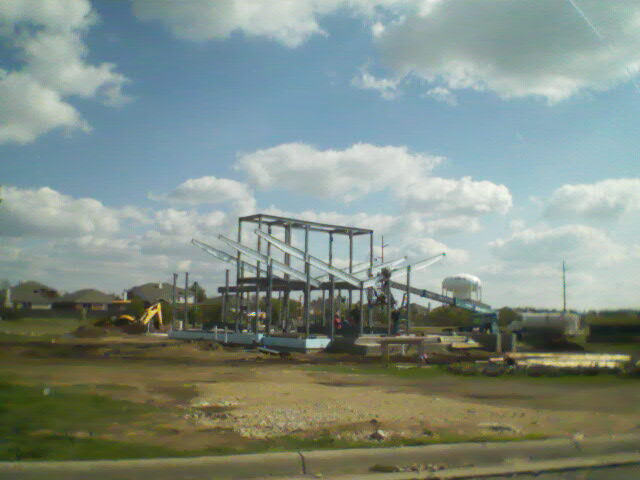 Zero-Energy Lab Construction on UNT campus in Denton, Texas.